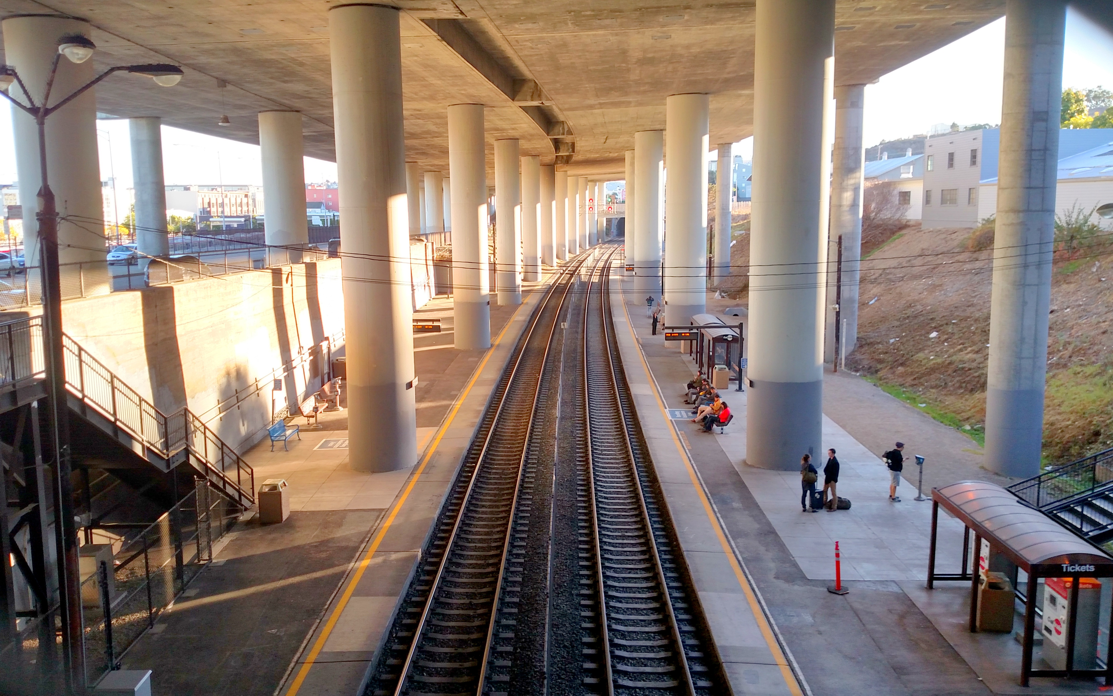 22nd Street station in November 2017